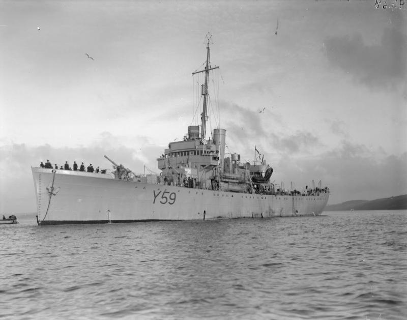 HMS Fishguard At anchor.